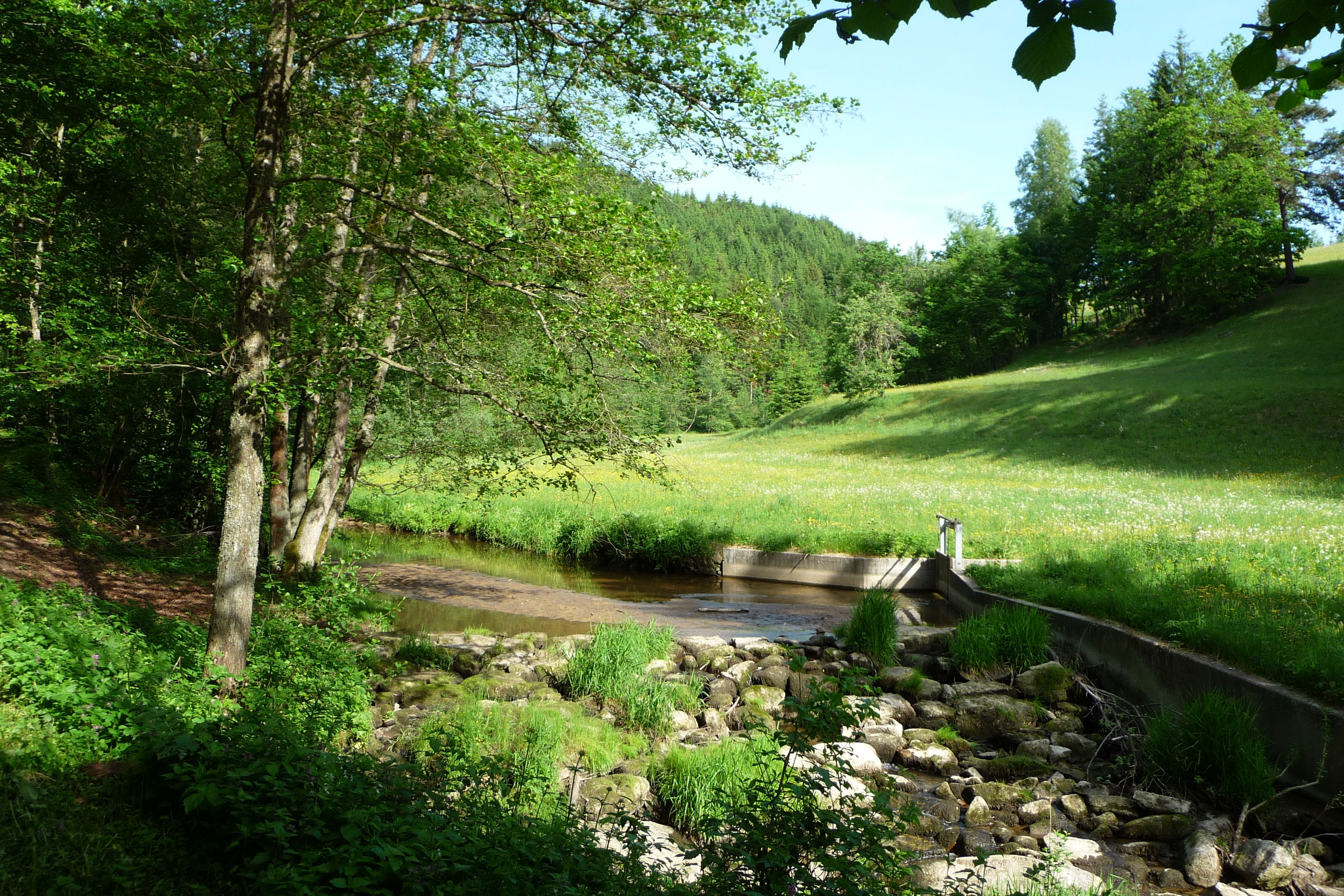 Thurytal